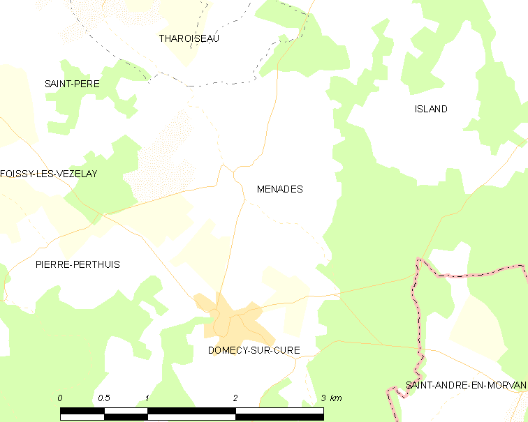 Map of French municipality Menades